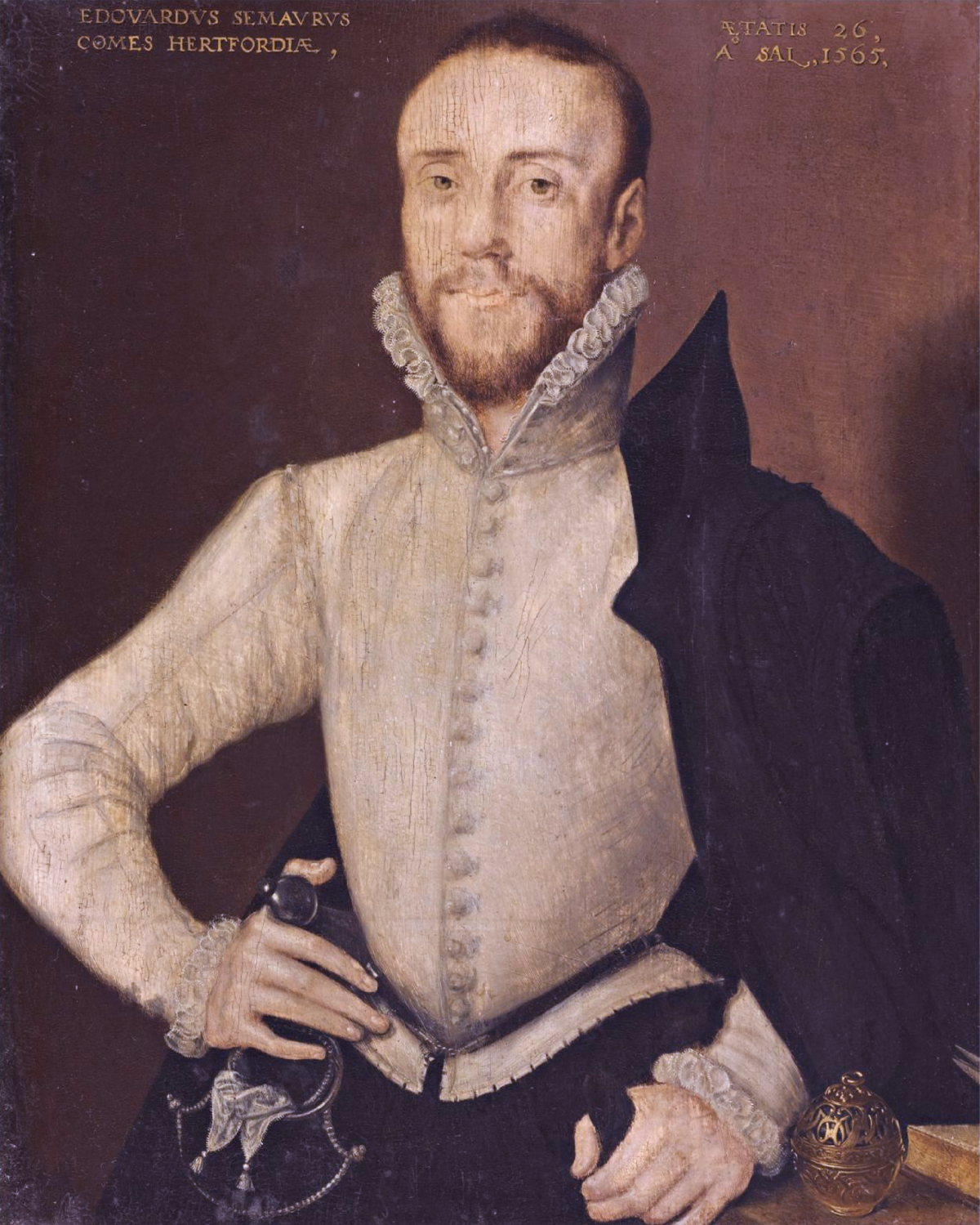 Edward Seymour, Earl of Hertford 40.5 by 33 cm later inscribed lower left: Edward Semaurus / Comes Hertfordshire and u. r.: Aetatis 26 / A(o) Suae 1565 oil on panel